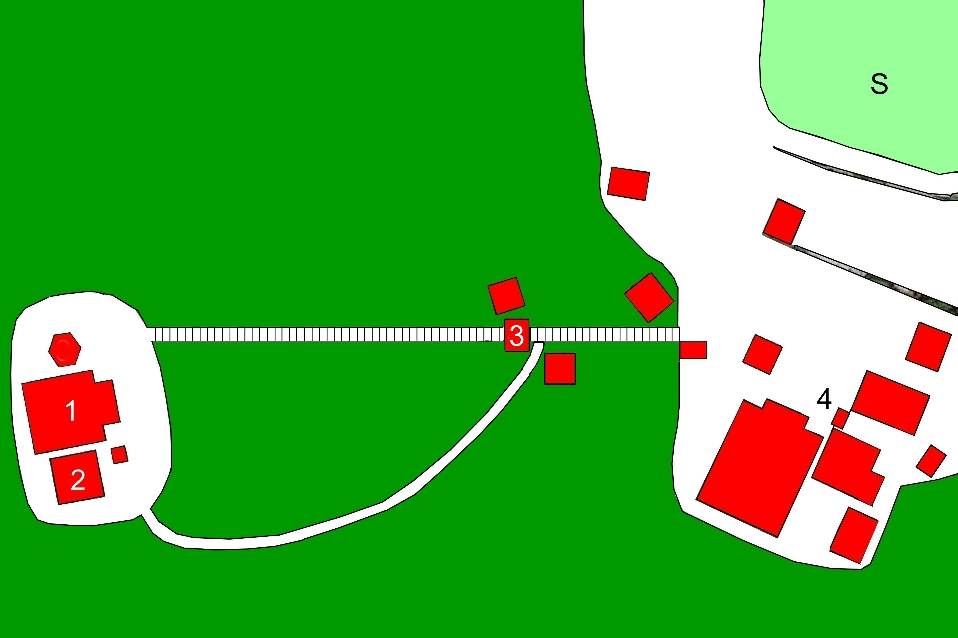 Layout of Shôryû Temple at Tosa, Japan